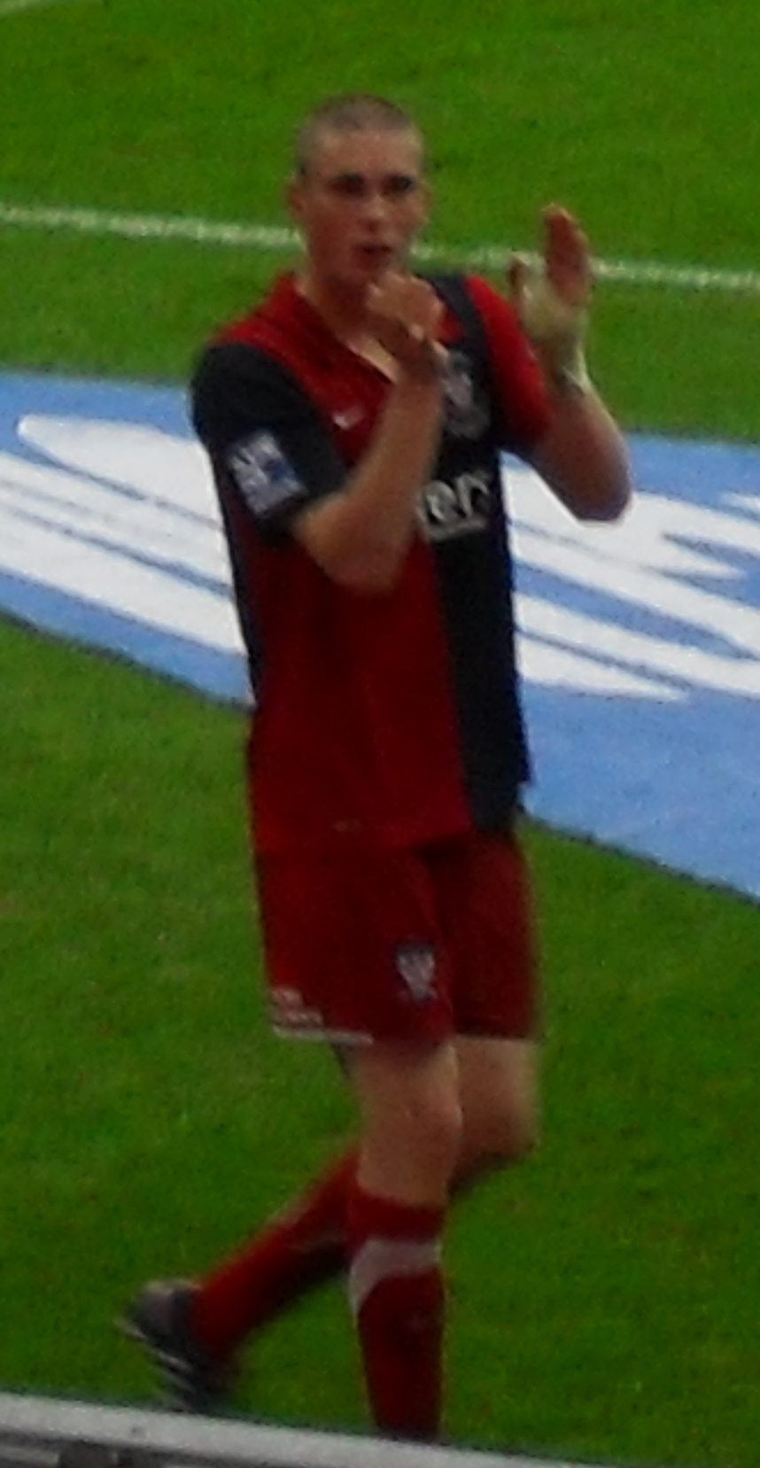 Richard Brodie after playing for York City against Oxford United at Wembley Stadium, London on 16 May 2010